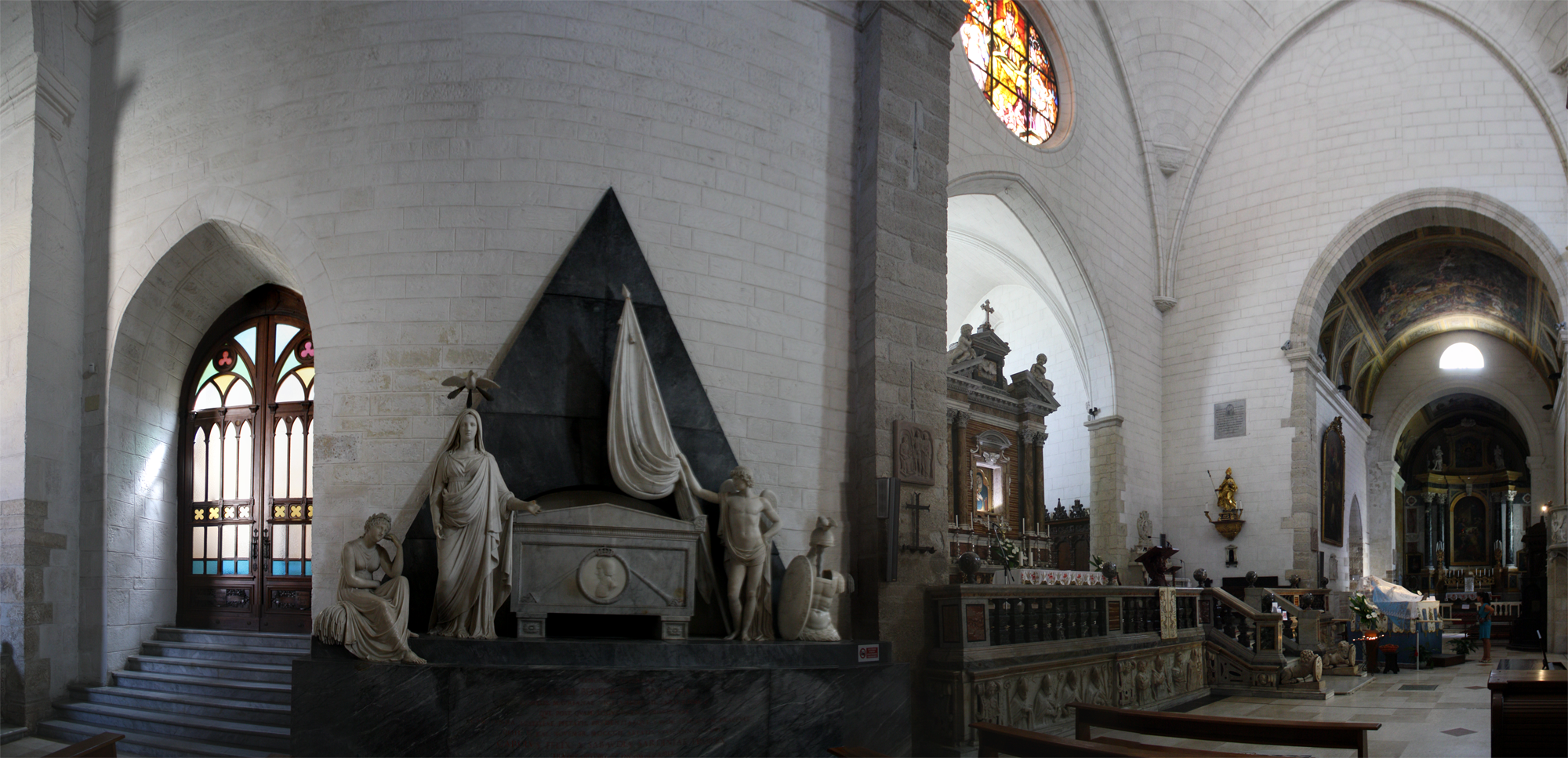 Transept of Sant Nicholas Cathedral - Sassari